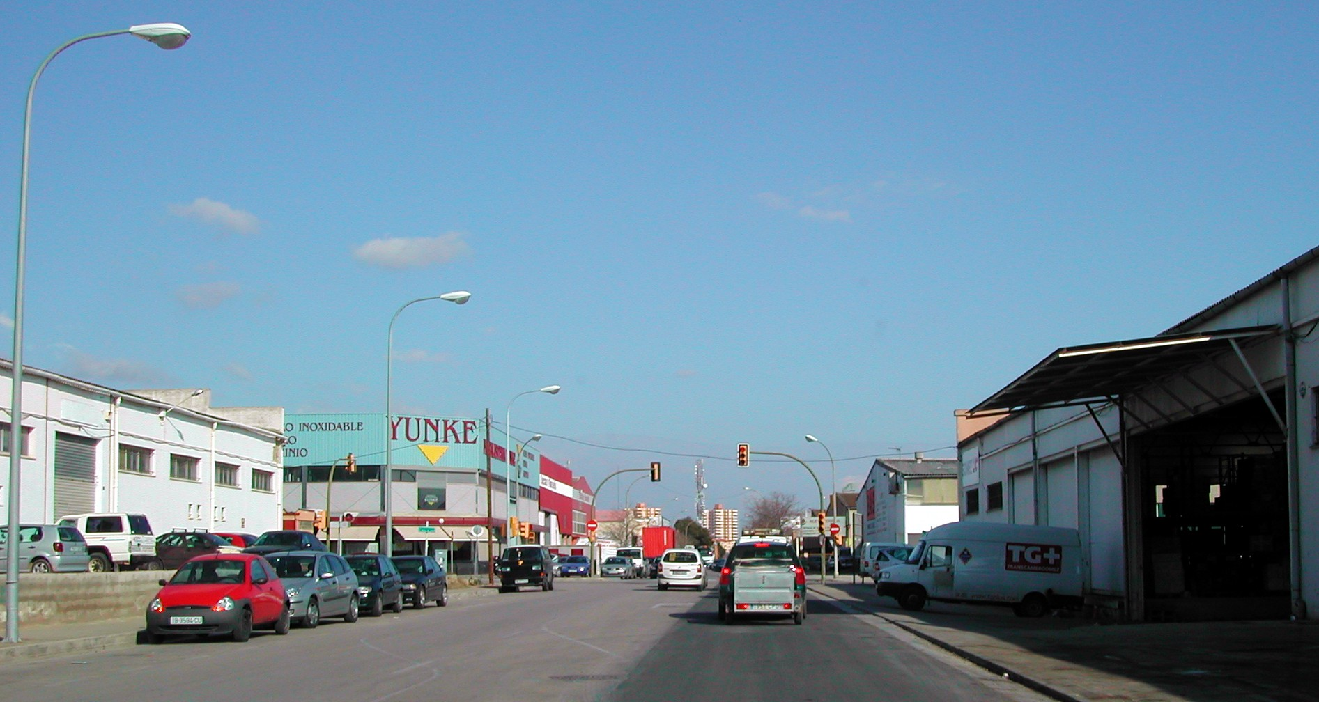 Gremi traginers d'oli street Palma.